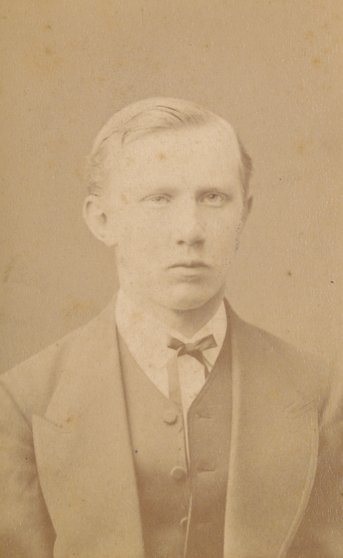 Photo of a young Fabian De Geer